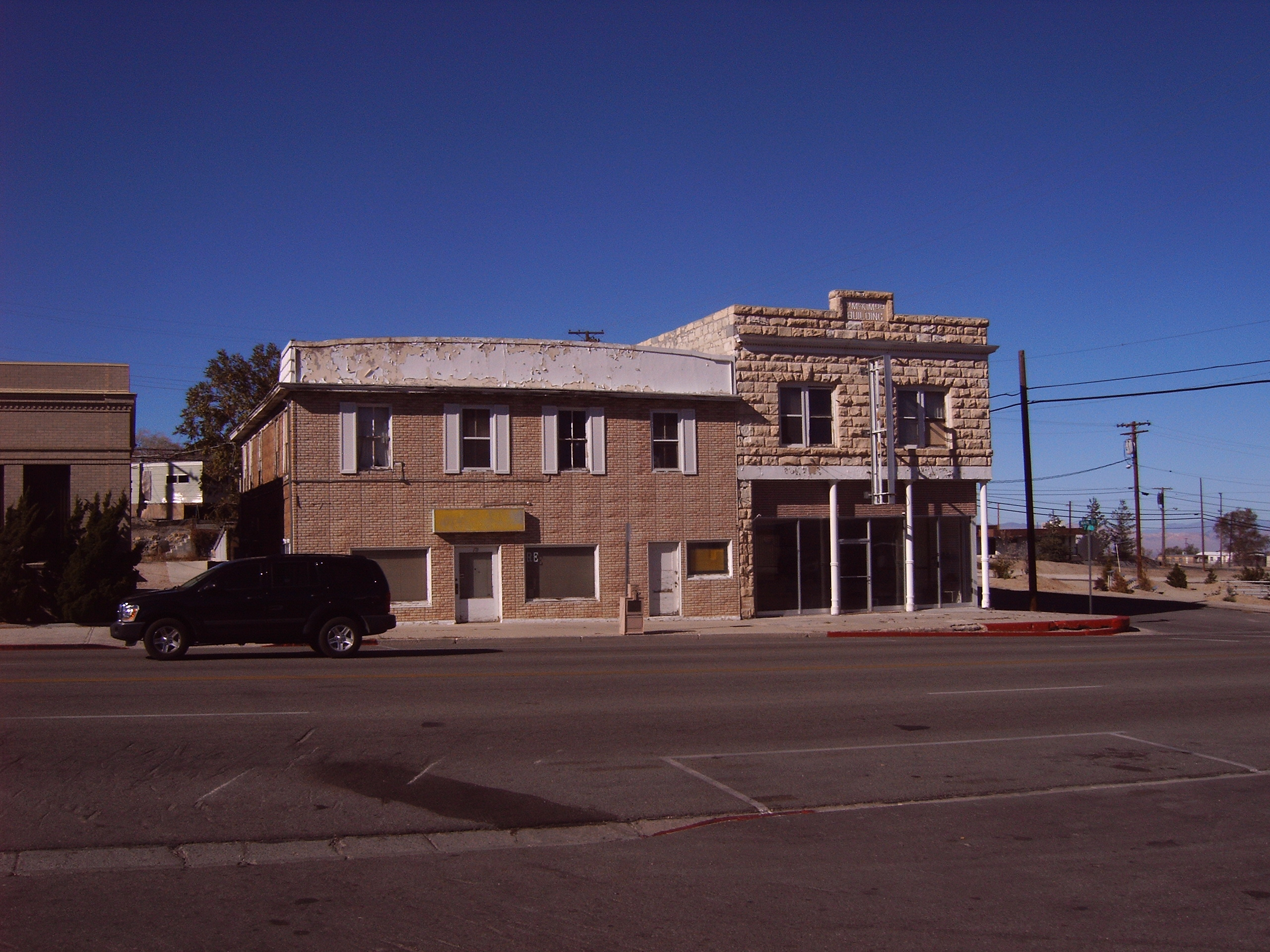 H.A. McKim Building (the building on the right) in Tonopah, Nevada, listed on the National Register of Historic Places.